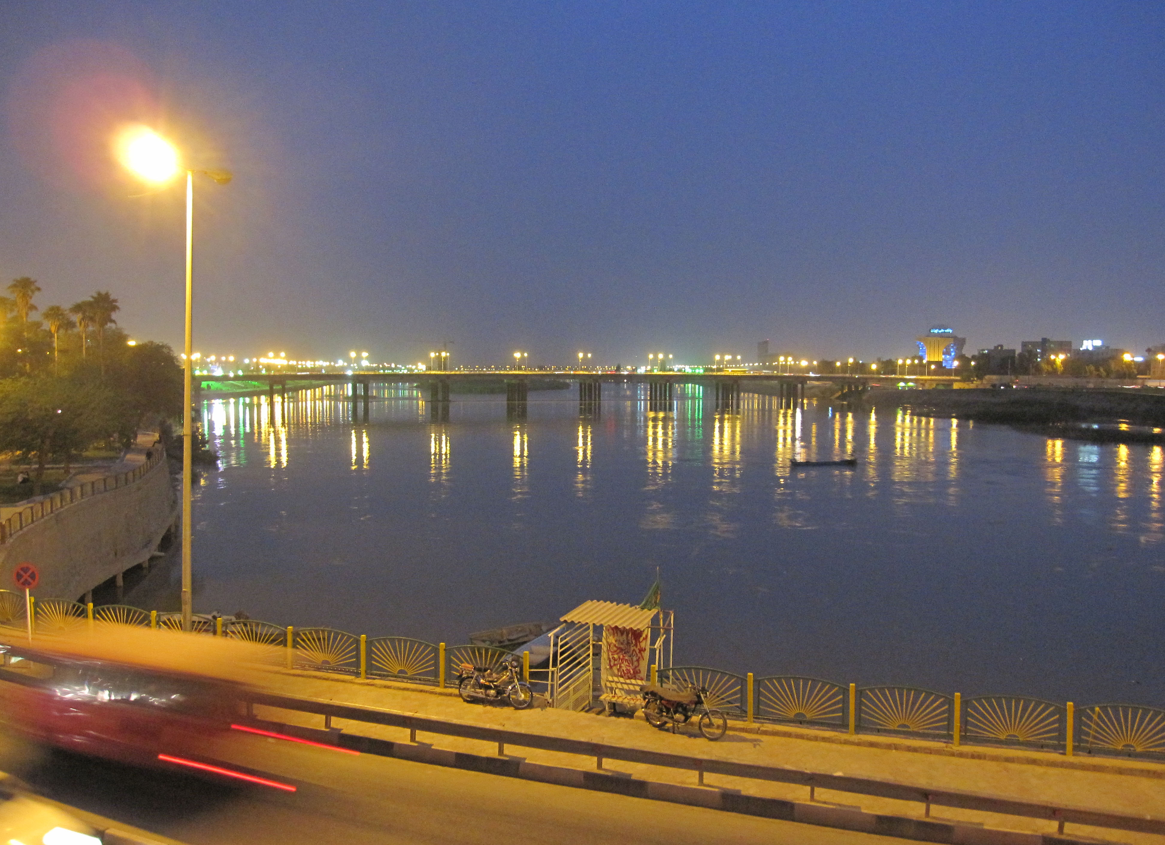 Karoon Bridge over Karoon River, Ahvaz, Iran